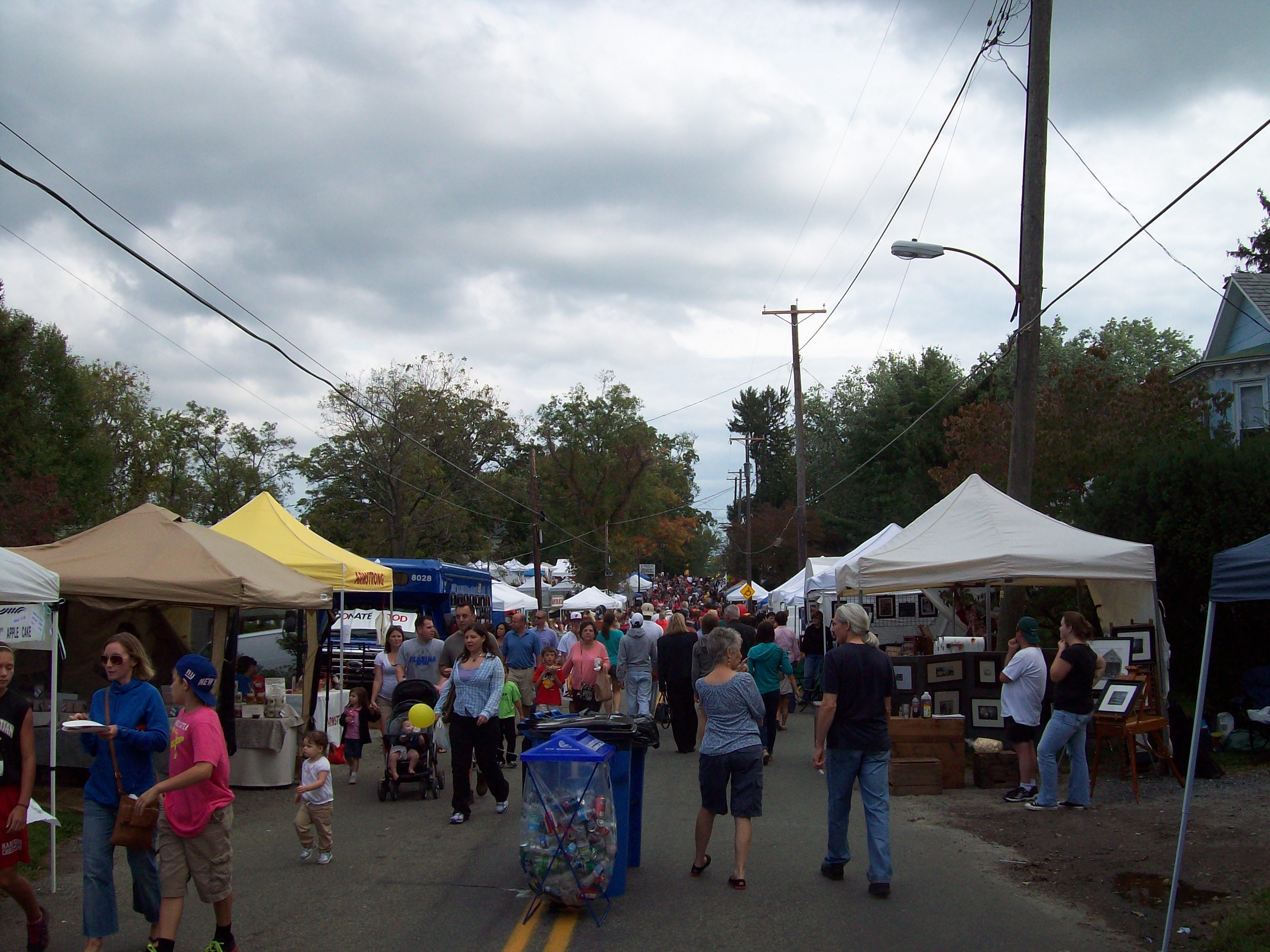 The crowds come from all over, close to 60,000 people, to attend the annual Apple Festival.